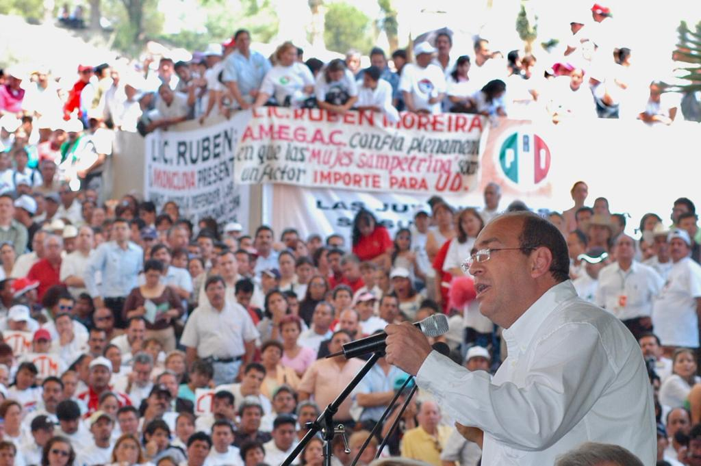 Trayectoria partidista